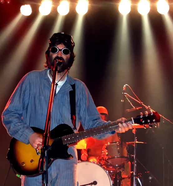 Mark Oliver Everett at the Arena in Vienna